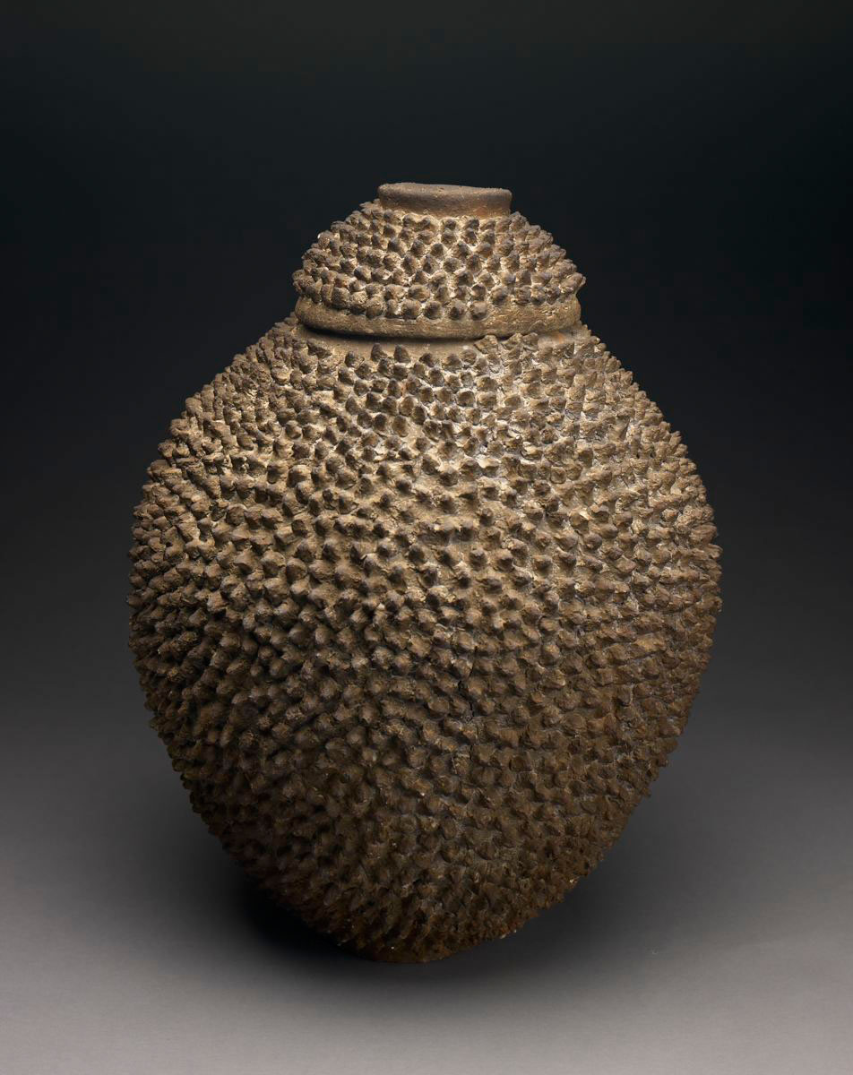 A clay covered vessel of the Nuna people of Burkina Faso.